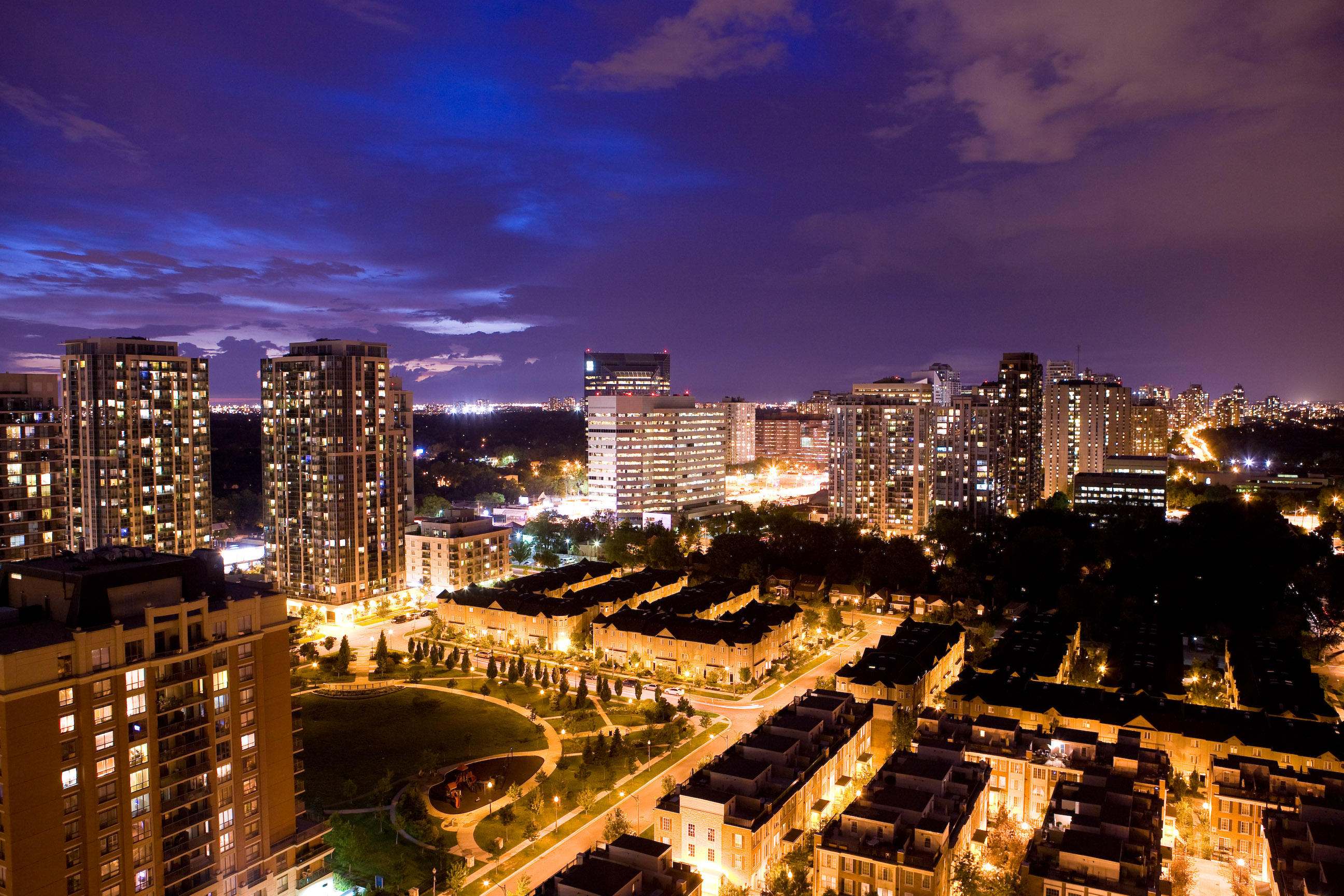 York, Toronto at night